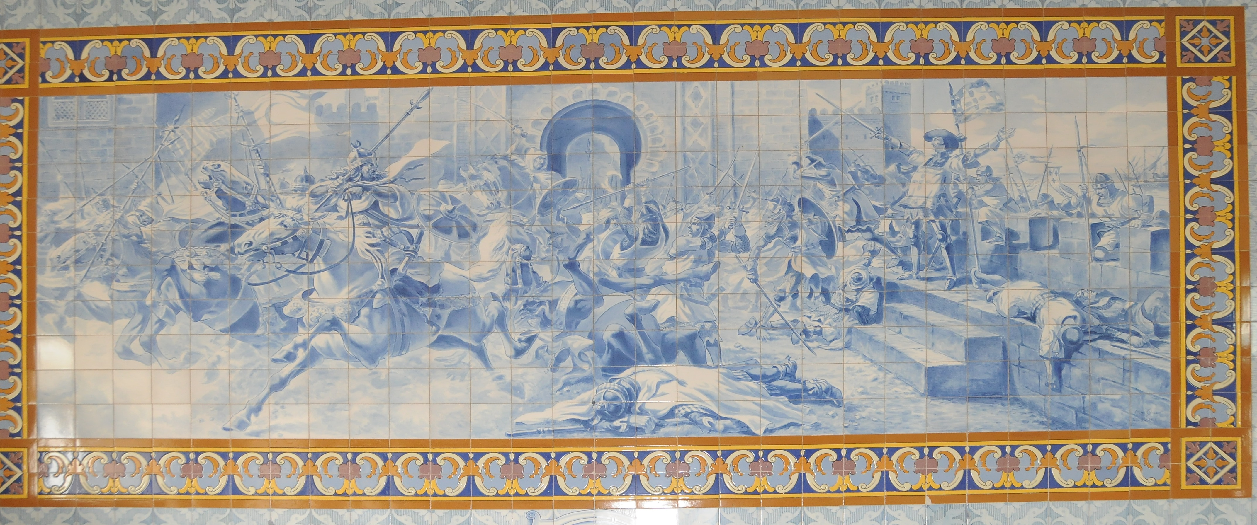 Azulejos of Henry the Navigator in the conquest of Ceuta, in Centro Cultural Rodrigues de Faria, Forjães, Esposende, Portugal, from Jorge Colaço